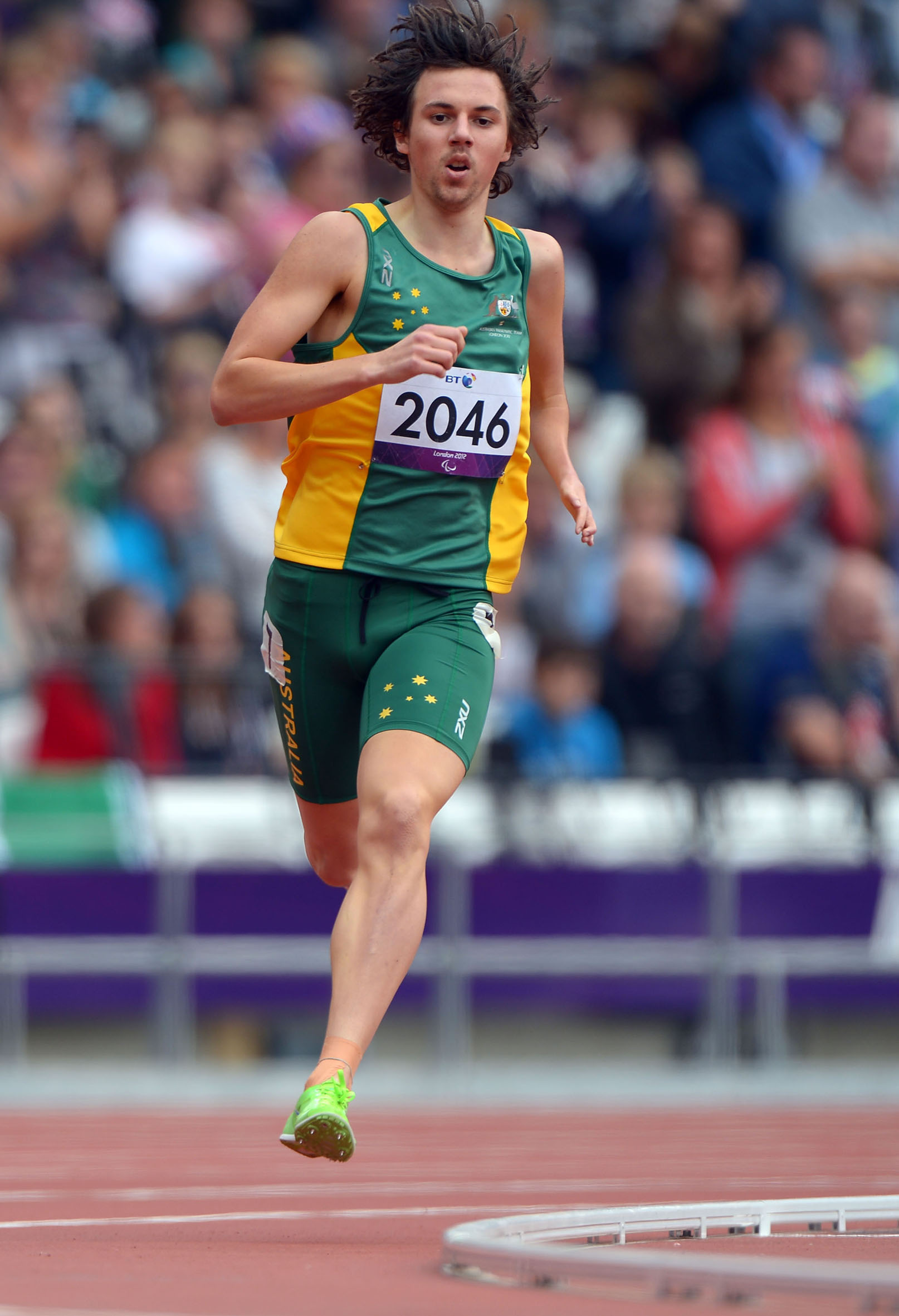 Photograph of Australian Paralympic team member Matthew Silcocks at the 2012 Summer Paralympic Games in London